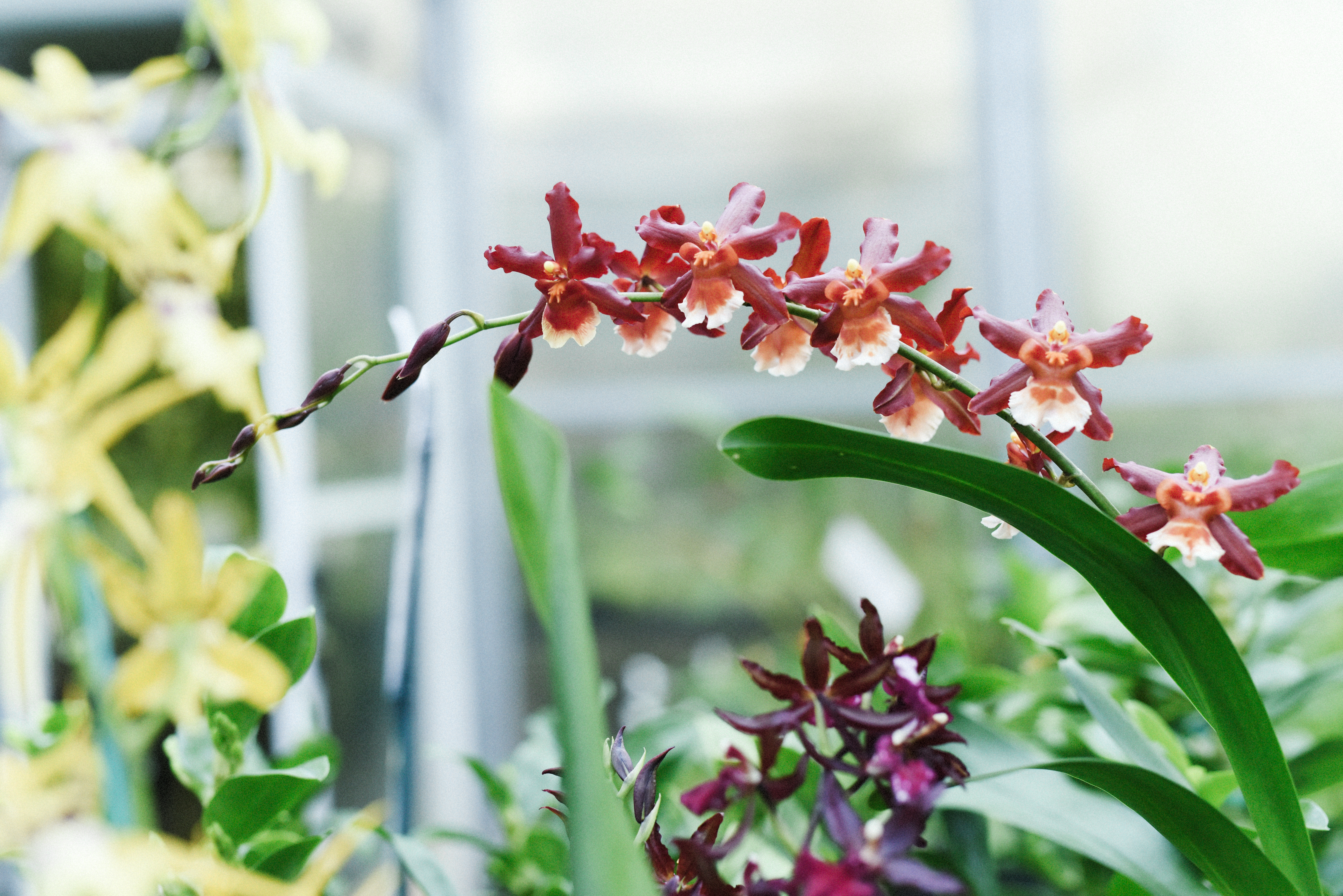 Fire Cracker Orchid.